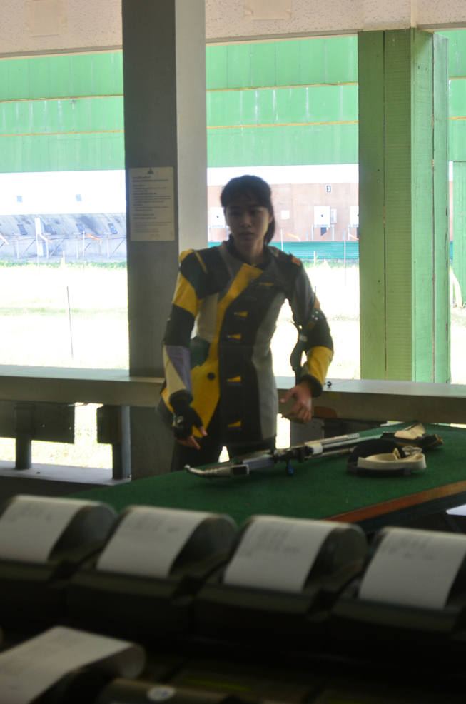 Thanyalak Chotphibunsin